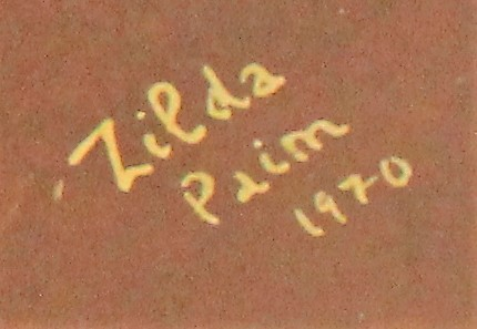 Zilda Paim signature